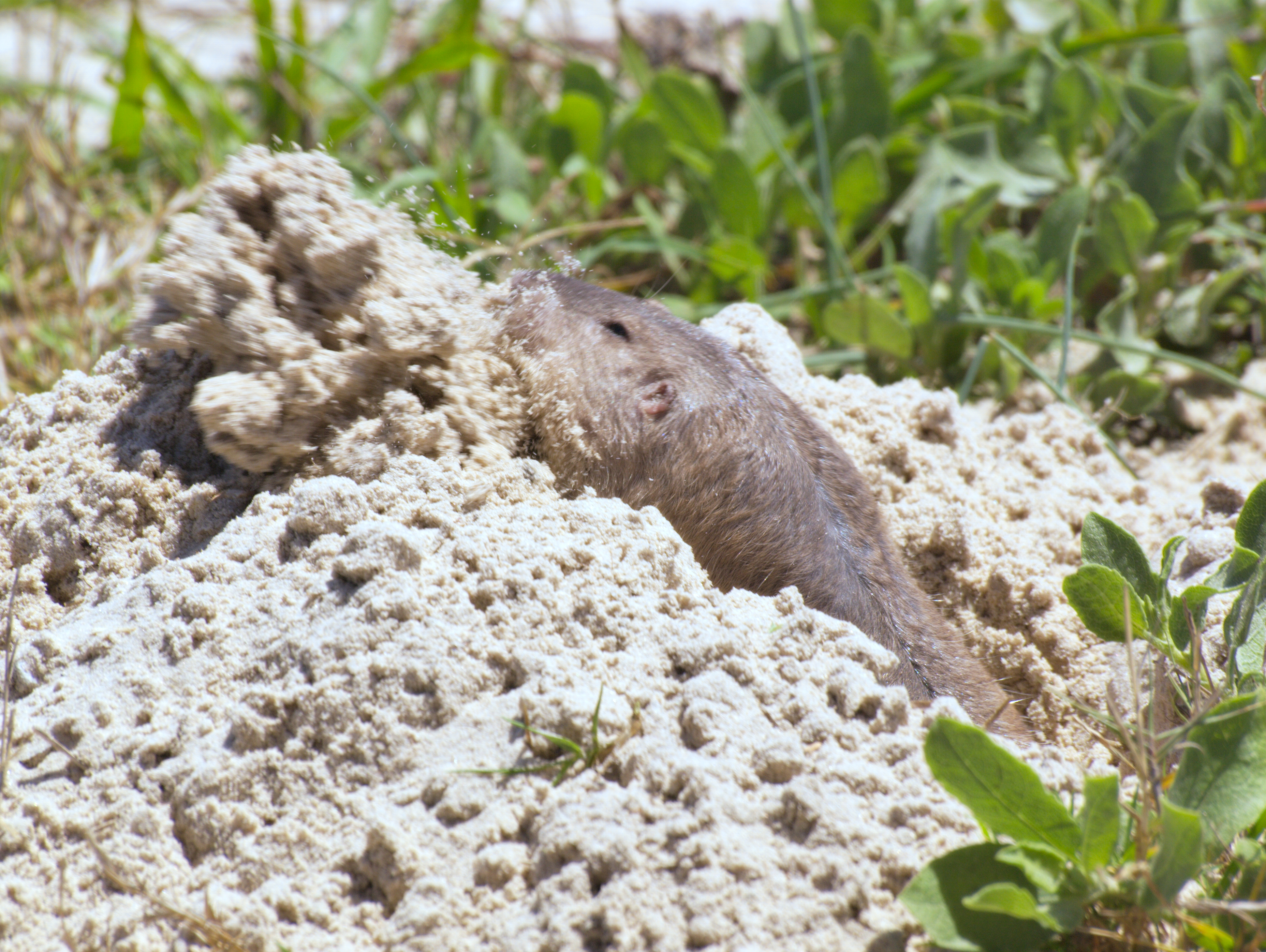 Geomys personatus A South Texas Pocket Gopher throws up a spray of sand in front of our tent at the Malaquite Campground, Padre Island National Seashore.